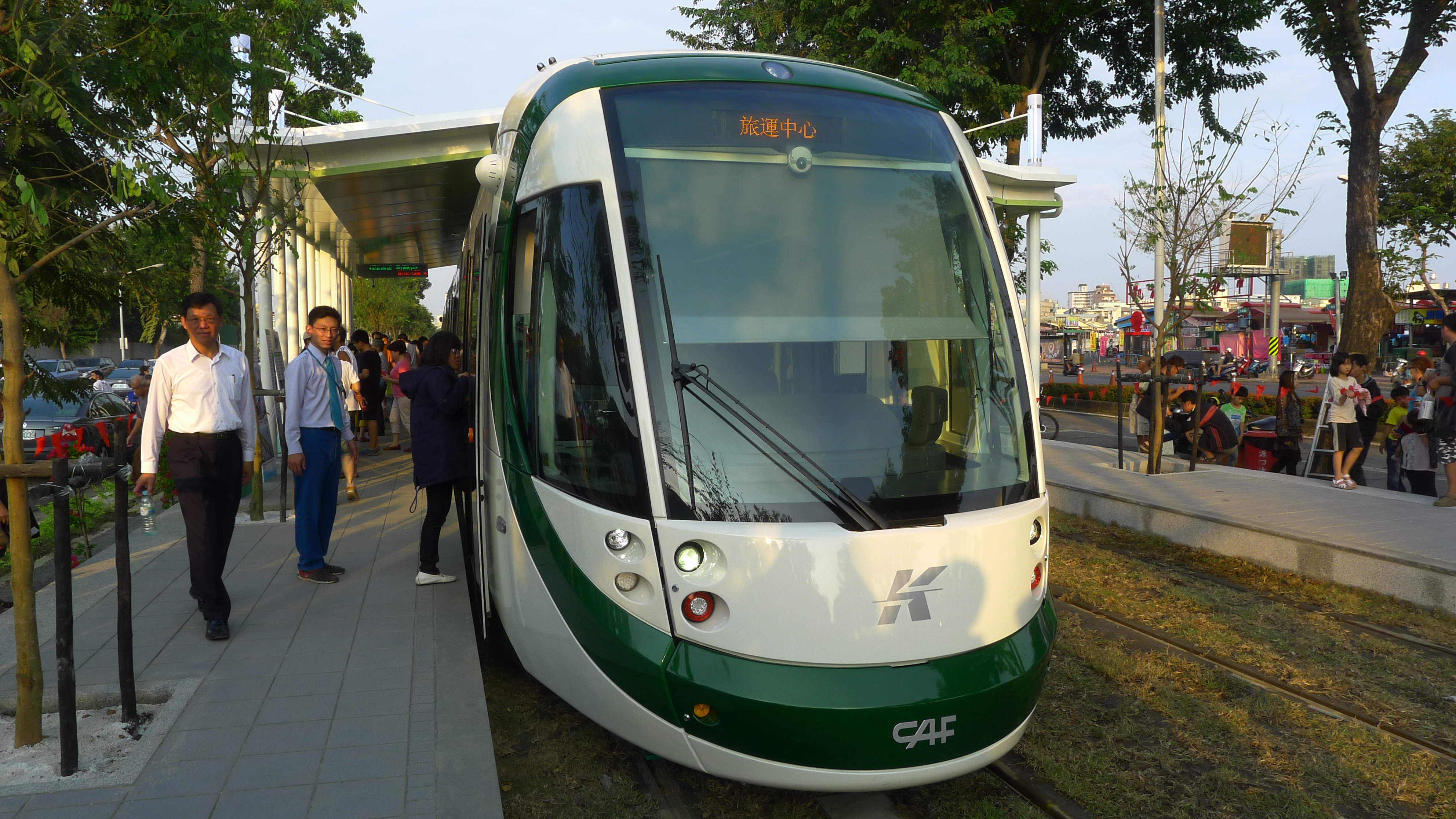 CAF Urbos 3 tram at C2 Station of Kaohsiung LRT Circular Line